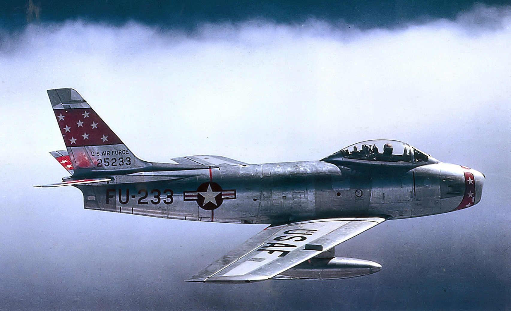 72d Fighter-Bomber Squadron - North American F-86F-35-NA Sabre - 52-5233